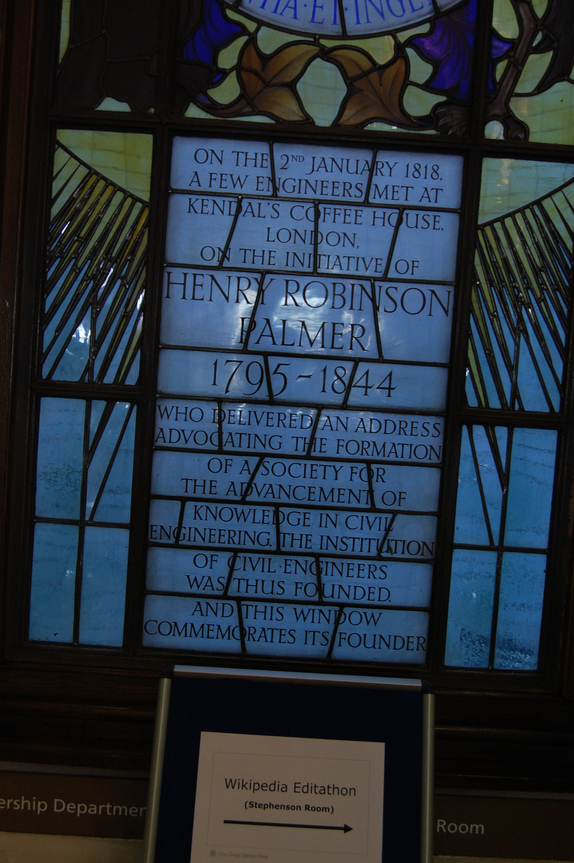 Taken at a Wikipedia editathon at the Institution of civil engineers, at their headquarters, One Great George Street, London.